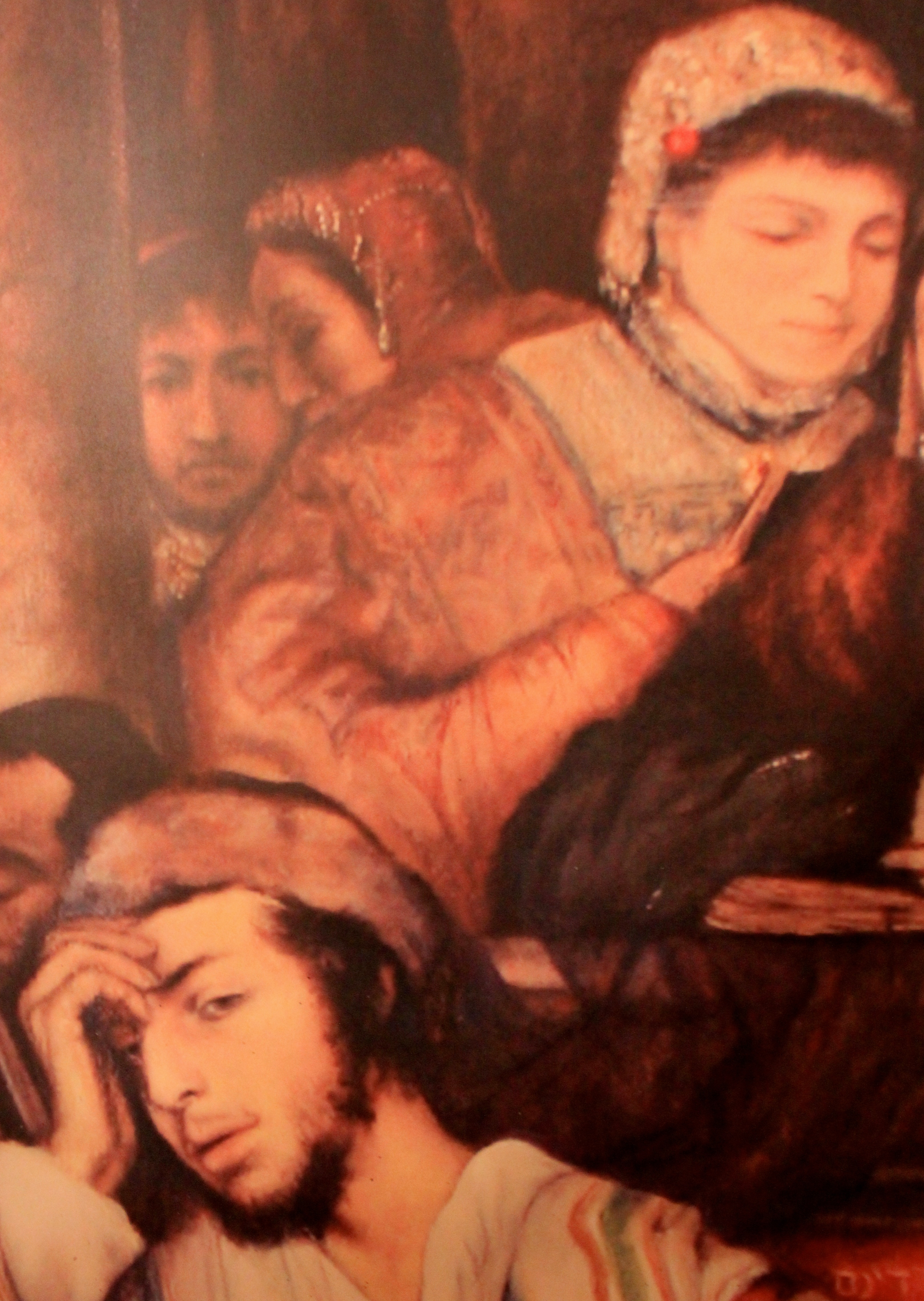 This is a photo I took of a section of Maurycy Gottlieb's famous 1878 painting "Jews Praying in the Synagogue on the Day of Atonement”, focusing on the self portrait of Maurycy Gottlieb himself and his fiancée Laura Rosenfeld. The picture is taken from a reproduction of Gottlieb's painting drawn by Aharon Lorber, a Holocaust survivor from Kosice, Slovakia. The painting was donated to Congregation Habonim in Toronto after he passed away in 2010 where it now hangs on the eastern wall of the synagogue.